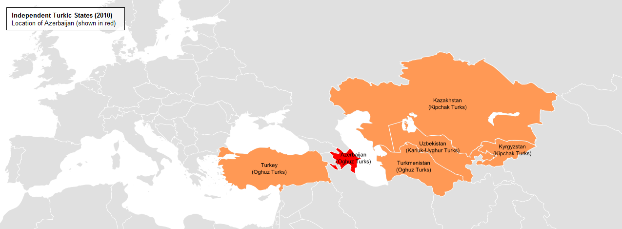 Map of Independent Turkic States in Central Asia, Eurasia and Asia Minor as of 2010. This map shows the location of Azerbaijan (shown in red color)